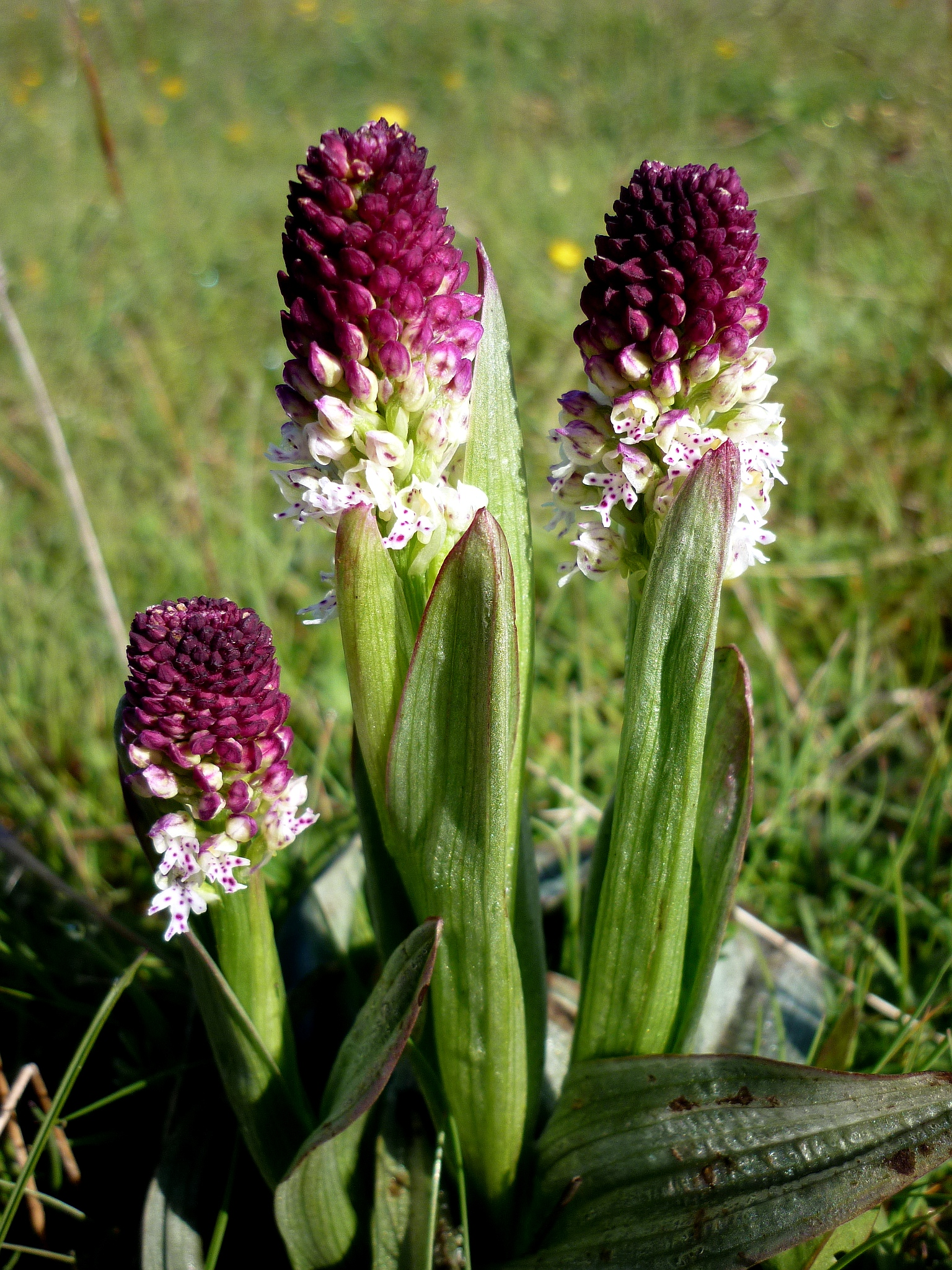 Orchis ustulata. In Muntanya d'Alinyà (Alt Urgell-Catalunya). To 1.770 m. altitude